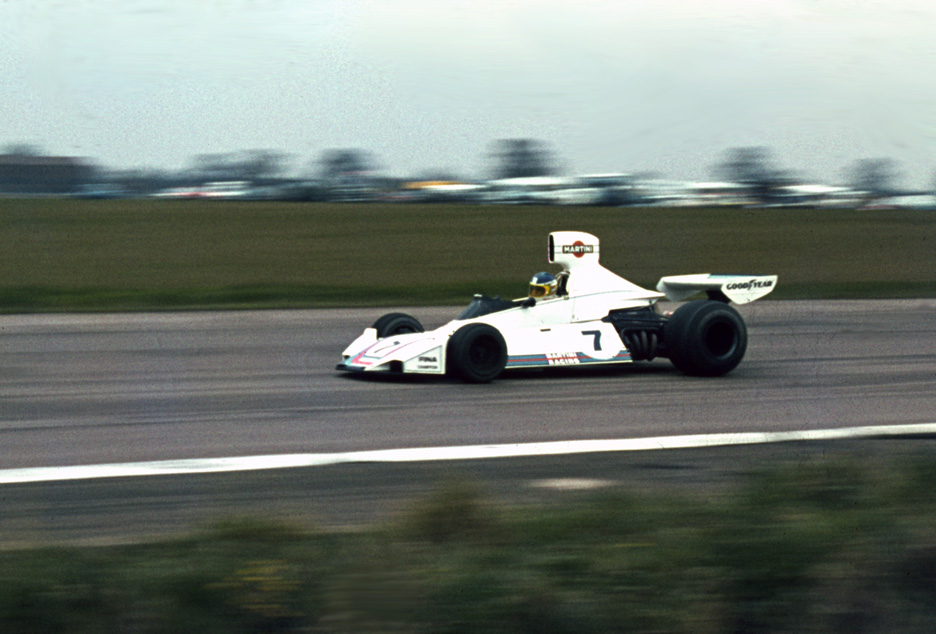 Carlos Reutemann driving for Martini Racing(GB),Brabham BT44 B Ford